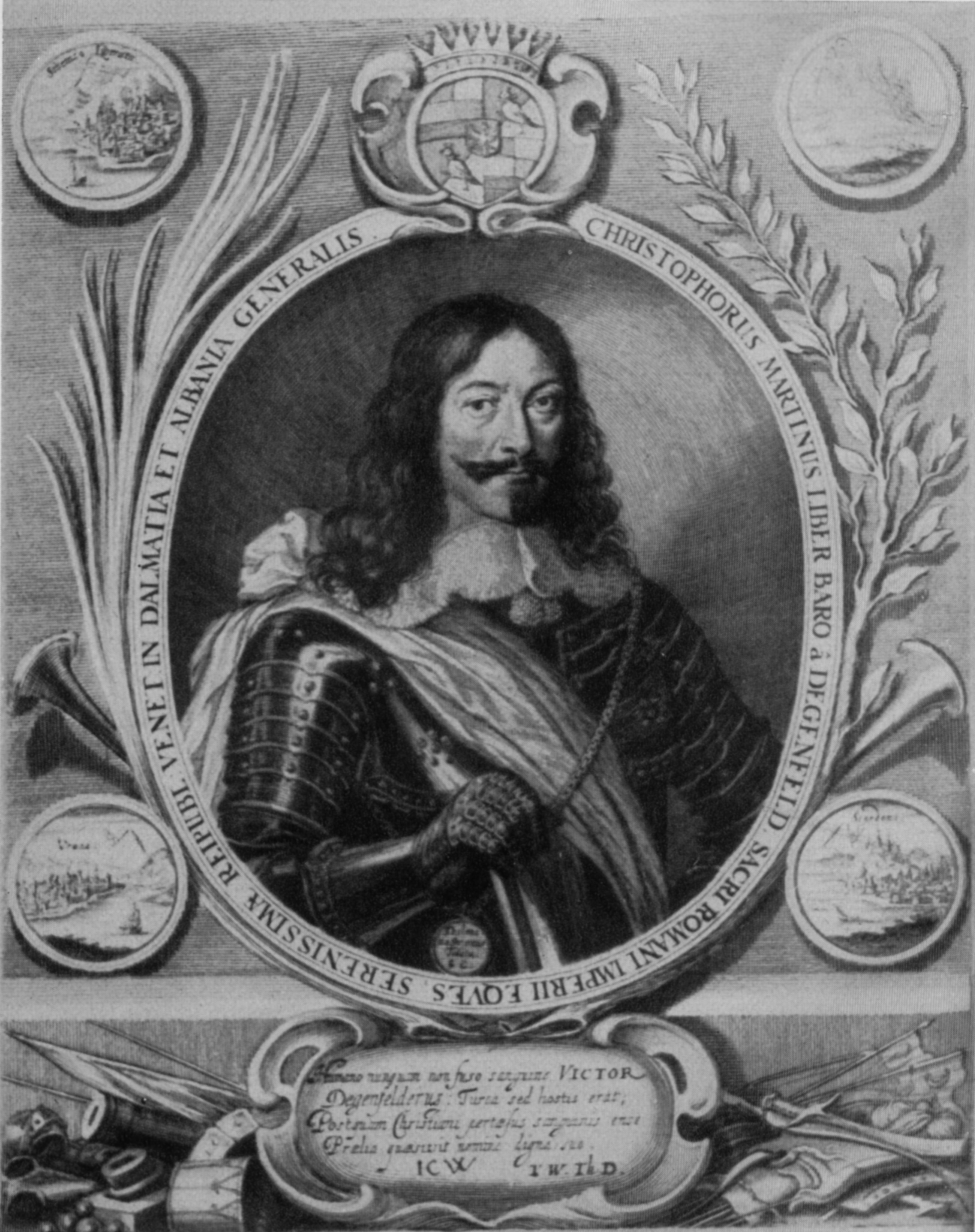 Christoph Martin von Degenfeld. Engraving, 17th century